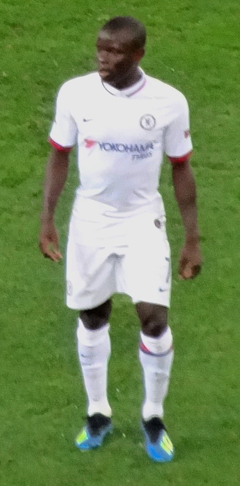 N'Golo Kanté (Chelsea)